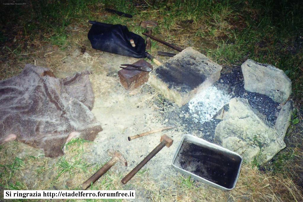 The experimental reconstruction of an Iron Age forge.